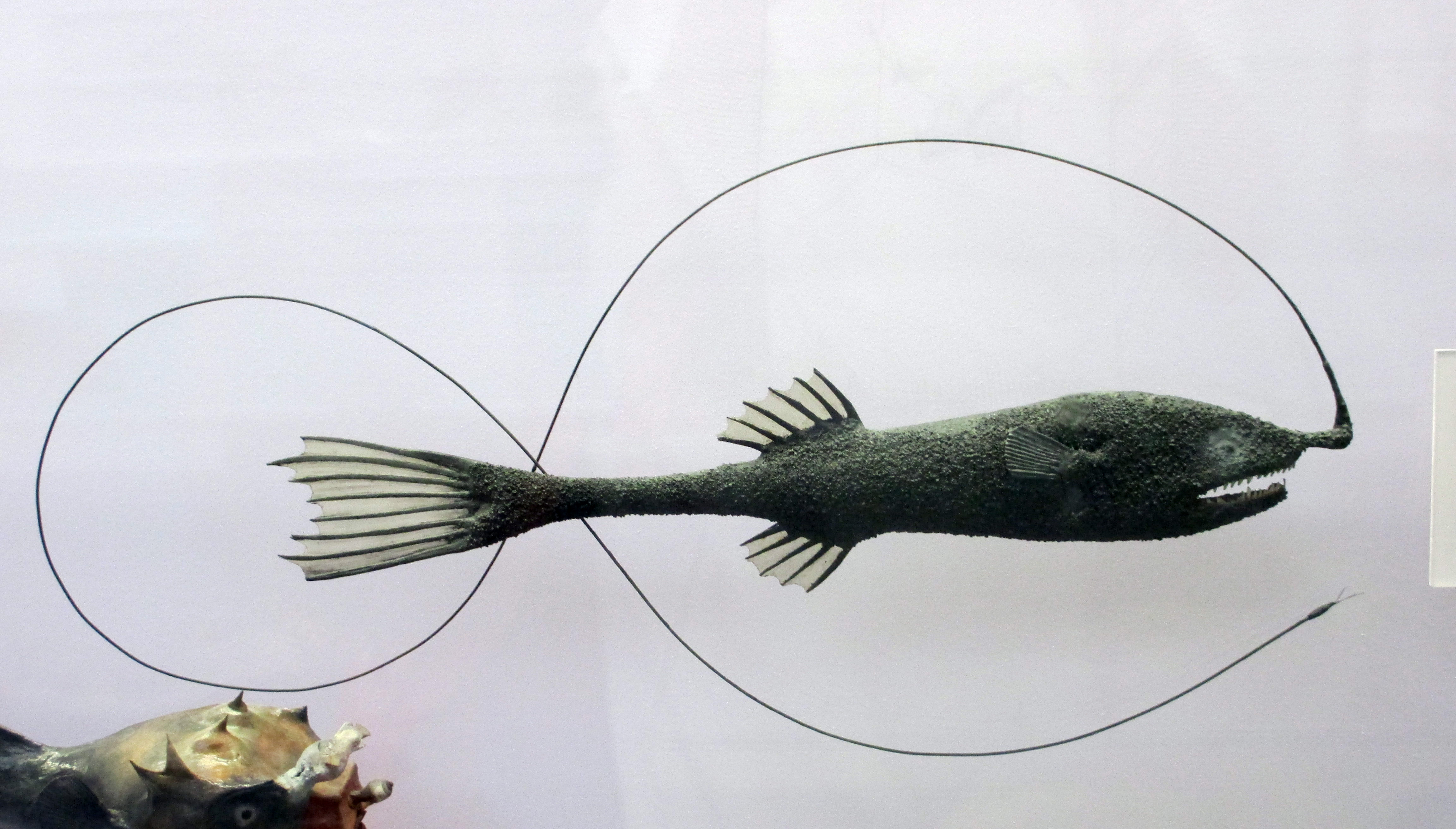 Model of a Whipnose Anglerfish Gigantactis macronema in the Fishes, Amphibians and Reptiles Gallery of the Natural History Museum in London